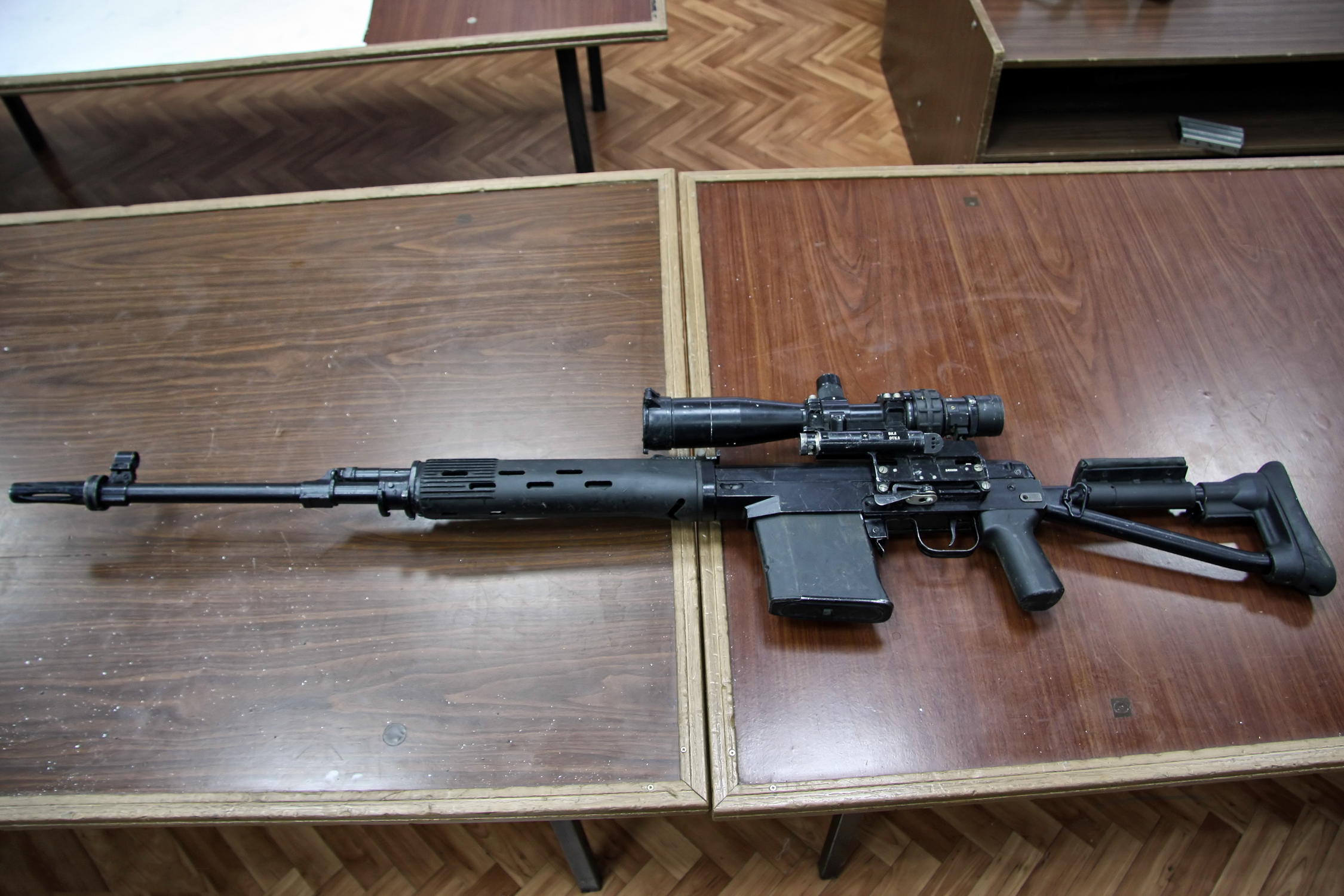 SVDK sniper rifle - TSNIITOCHMASH